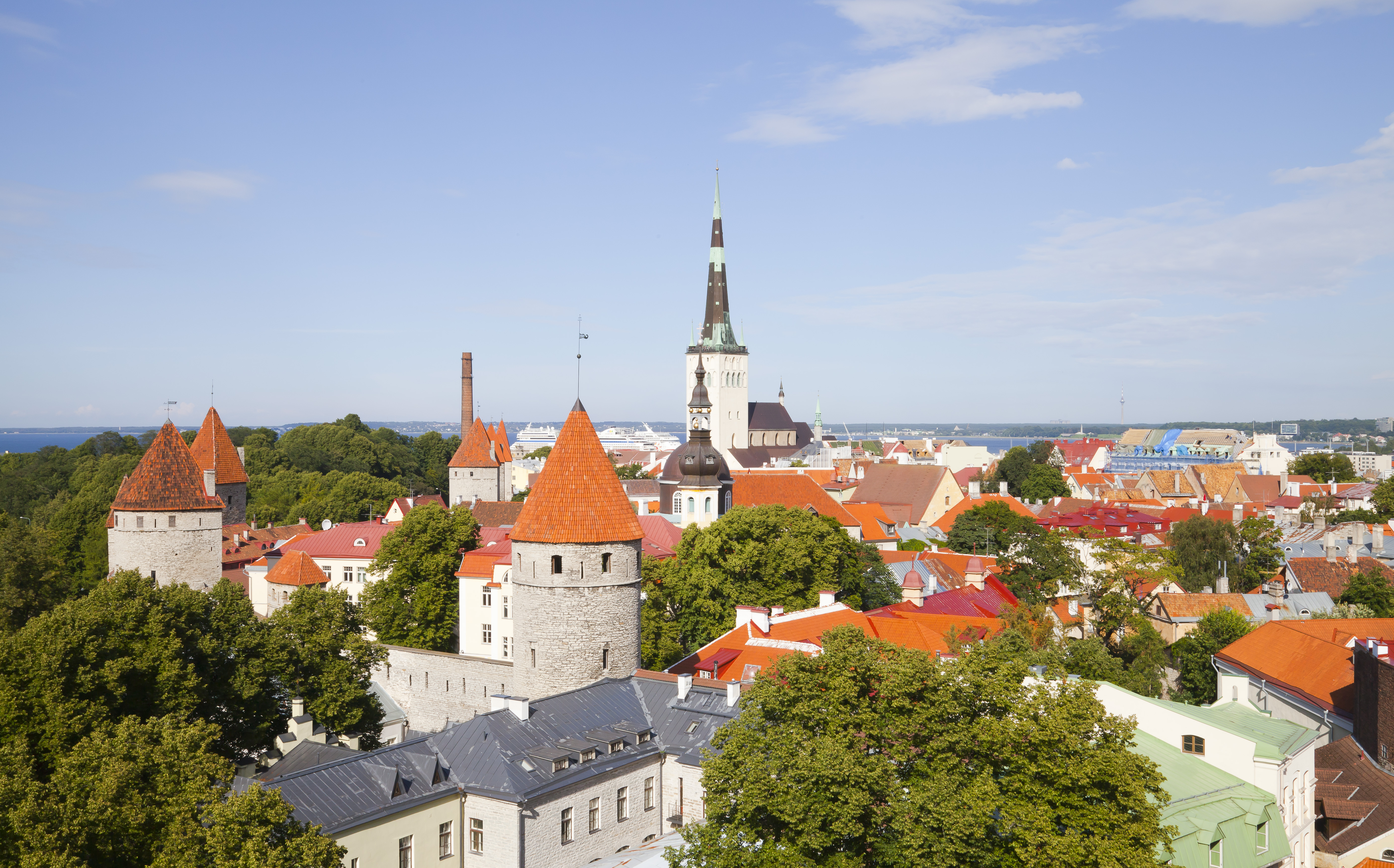 Panoramic view of Tallinn from Toompea, Estonia